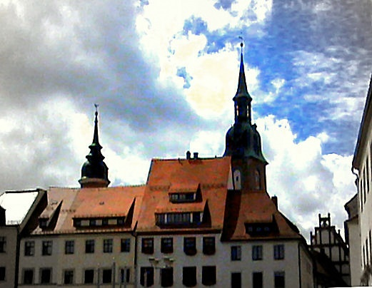 a part of south western side of Upper Market Place and church St. Petri in Freiberg, Saxony, Germany